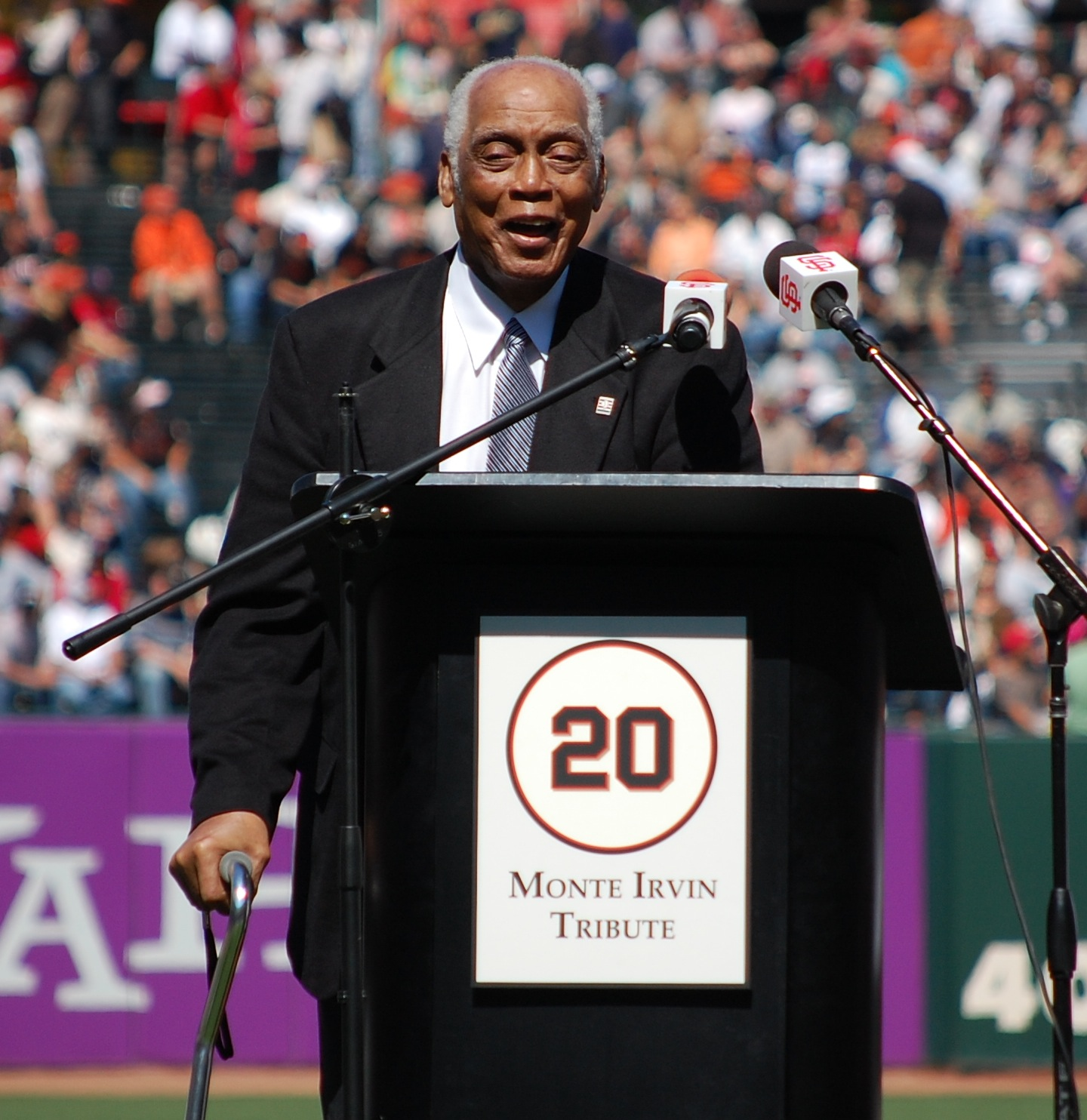 Monte Irvin speaking at his number retirement ceremony, AT&T Park, 2010.